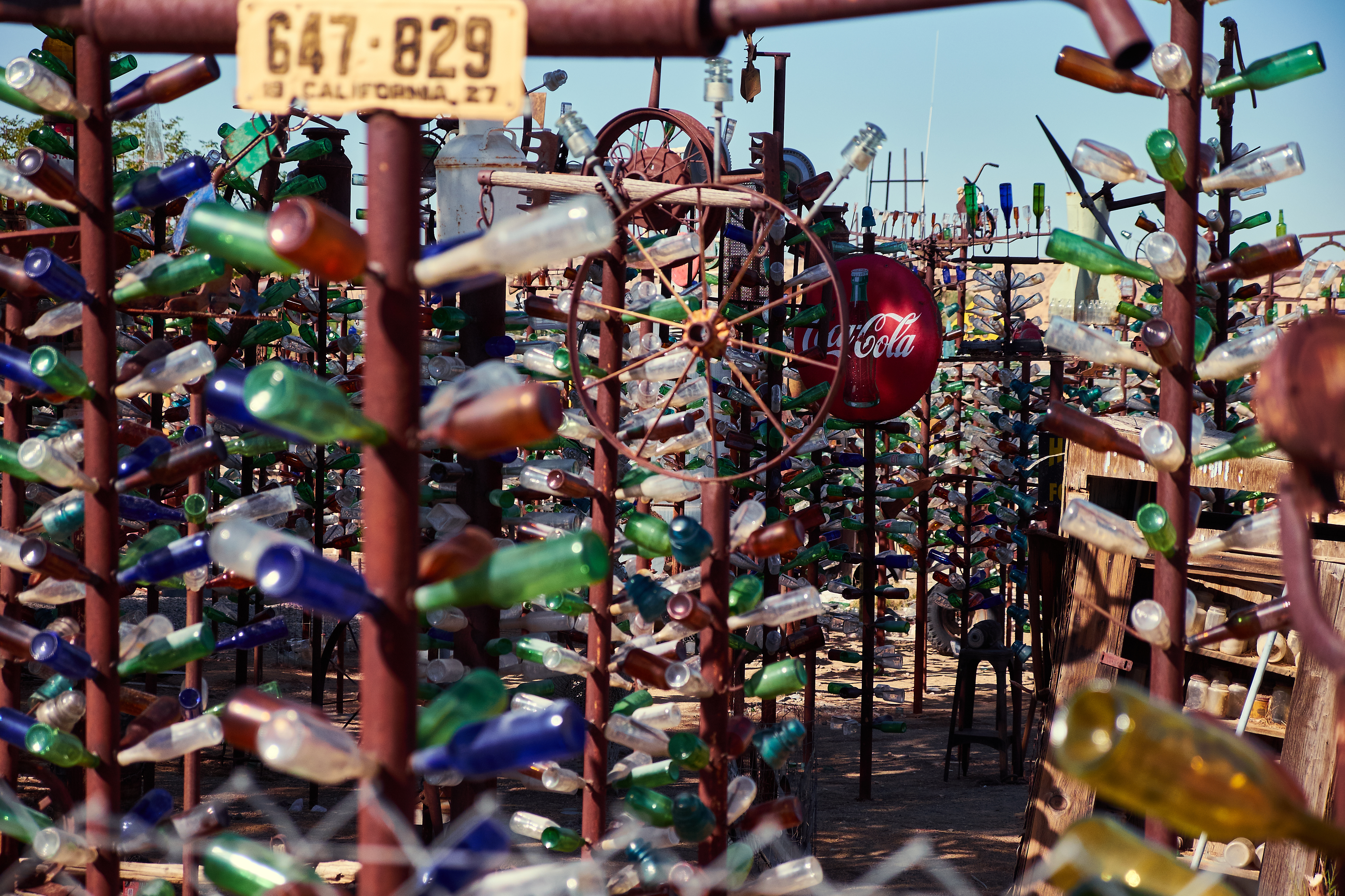 Elmer's Bottle Tree Ranch